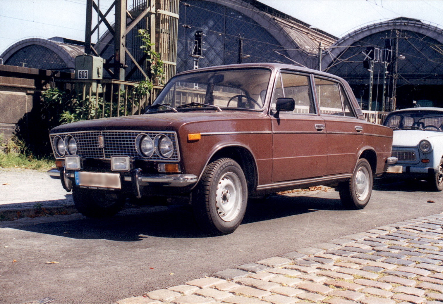 A Lada 1500 (VAZ-2103) from the former Soviet Union at Dresden Main Station. There is a Trabant 601 in the background.